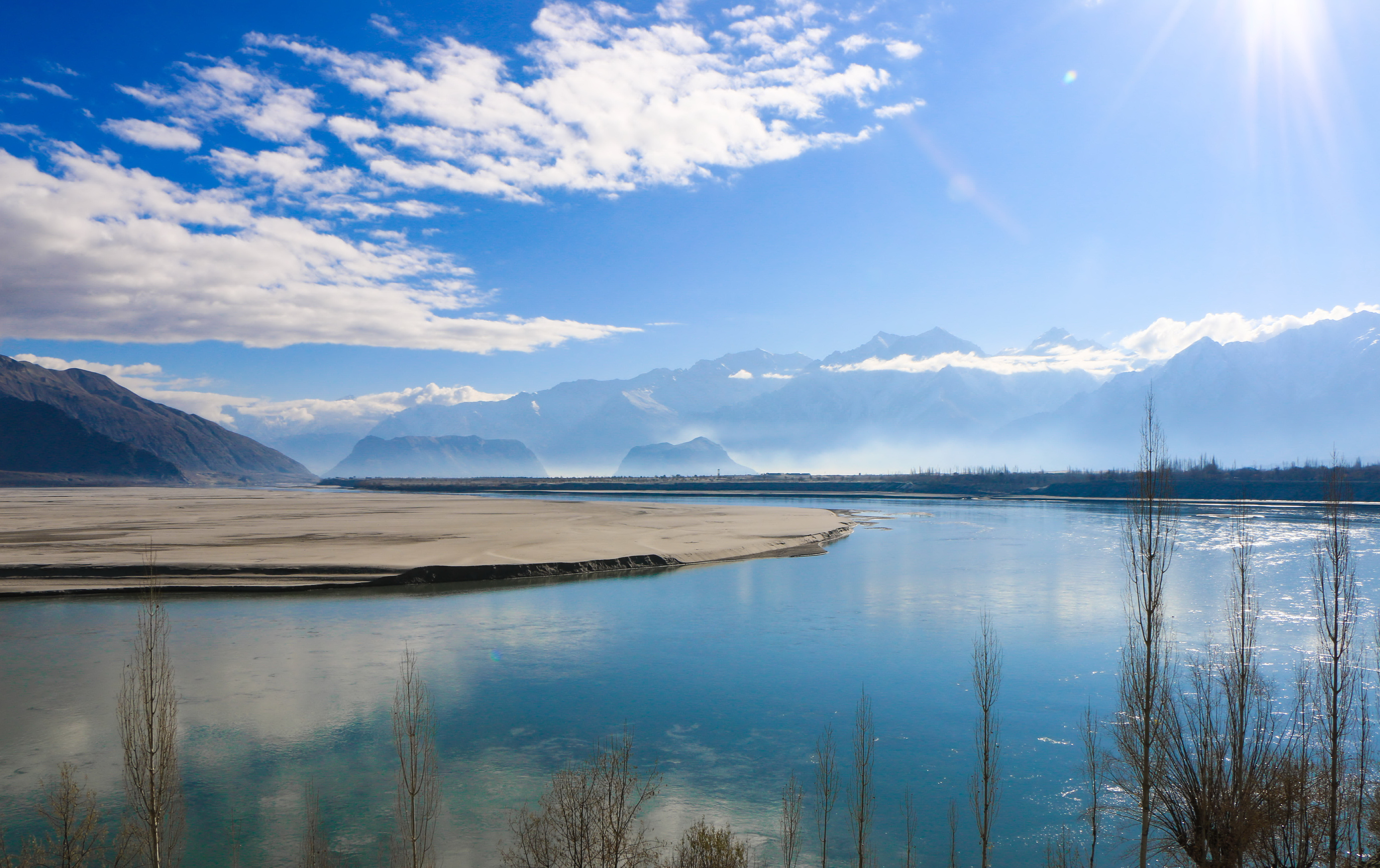 View of Indus river near Skardu